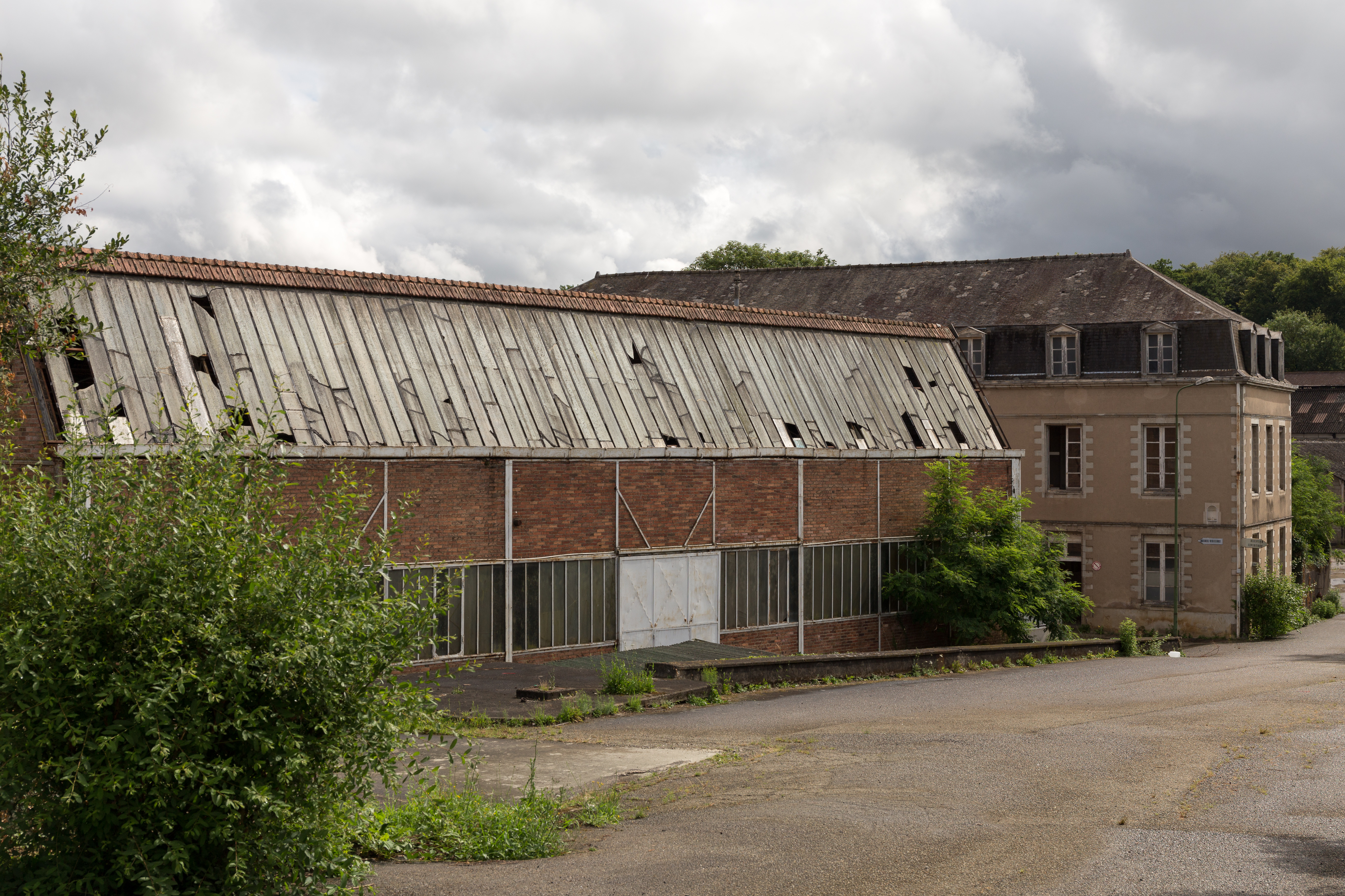 Former factory of Port-Brillet.